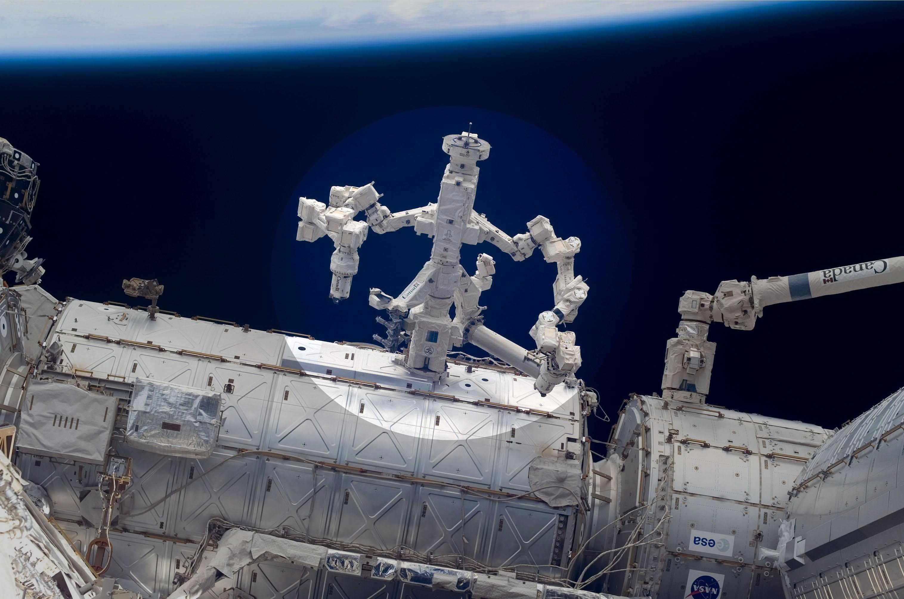 Dextre ! A little robot on the ISS. The original is a NASA image in the public domain, you can find that at